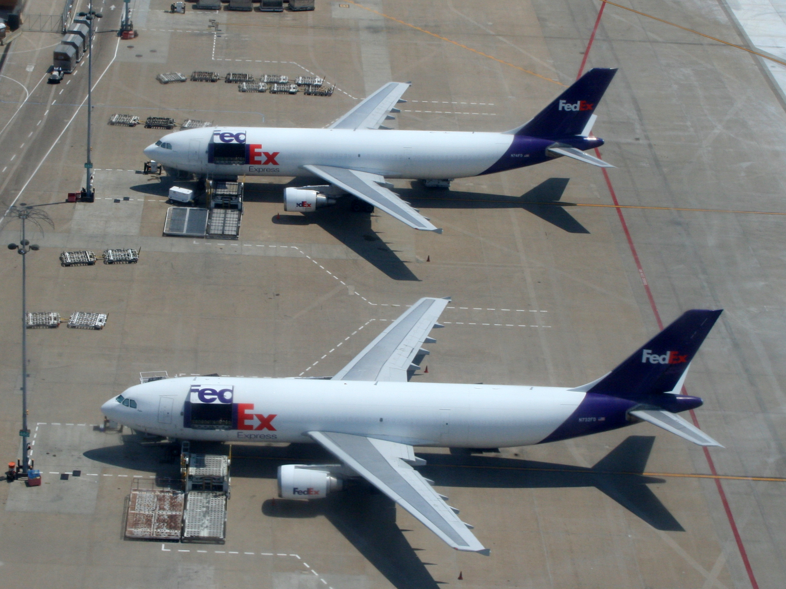 Two Fedex Airbus A300 cargo (N732FD and N741FD) being loaded at Memphis International